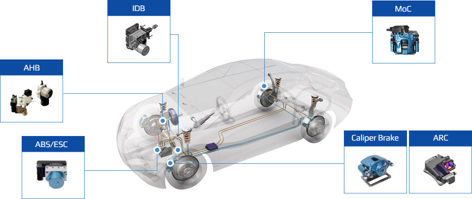 product image